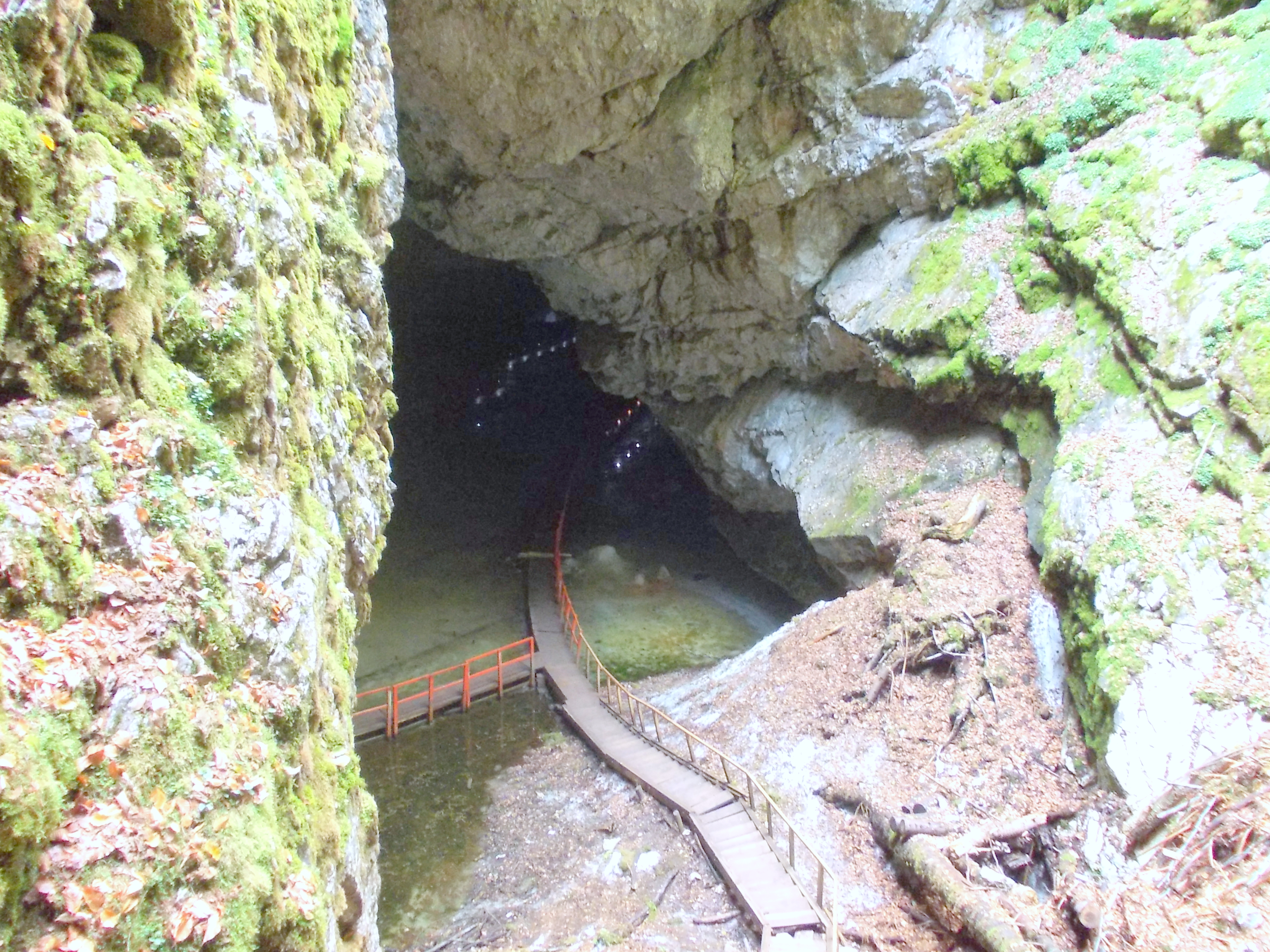 Scărișoara Cave, Alba county, Romania